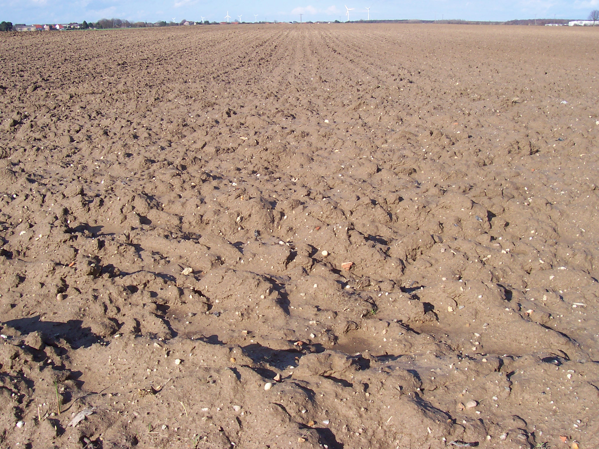 A wide and empty field.